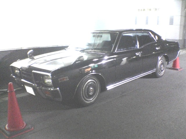 Nissan Cedric series 330 hardtop